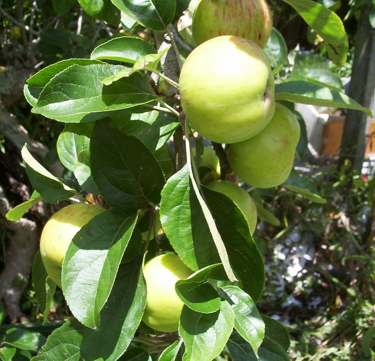 Foliage of a gravenstein apple tree. Leaves and fruit shown, apples are not quite ripe yet, though others have already fallen on the ground as the gravenstein's fruit don't all ripen at the same time.